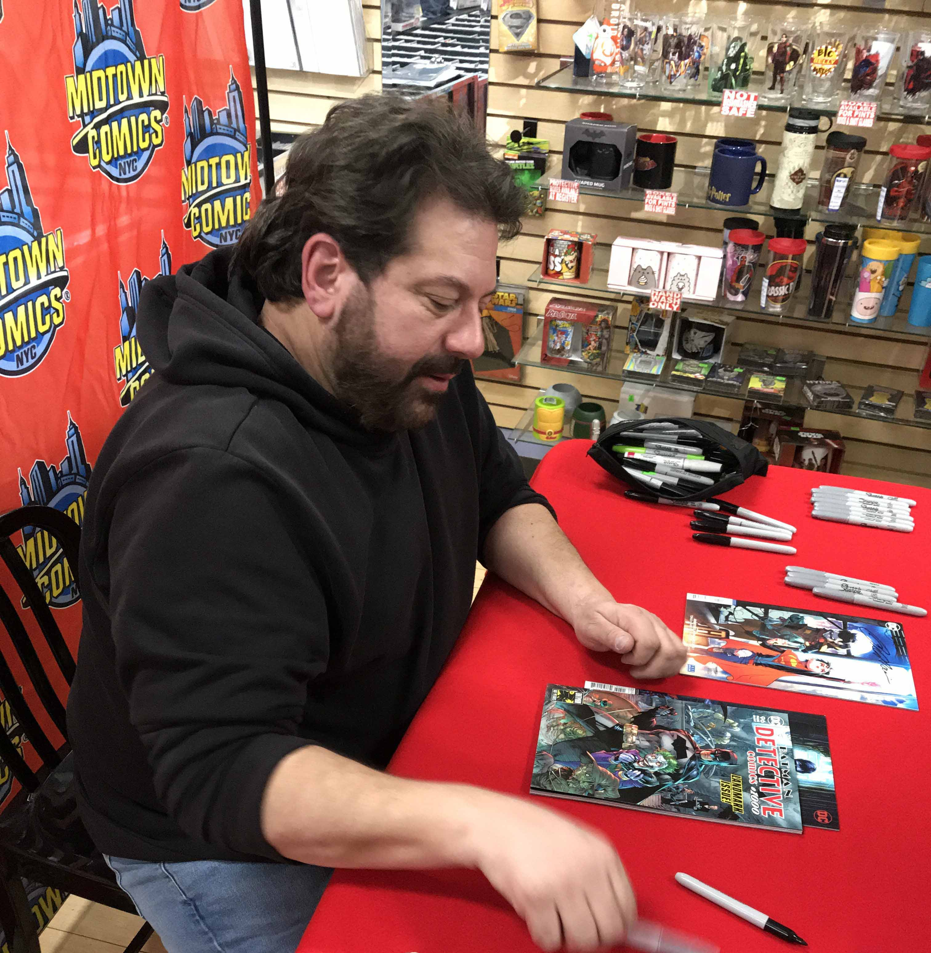 Comics writer and editor Peter Tomasi at a Wednesday, March 27, 2019 signing for Detective Comics #1000 at Midtown Comics Downtown in Manhattan. This photo was created by Luigi Novi. It is not in the public domain, and use of this file outside of the licensing terms is a copyright violation.